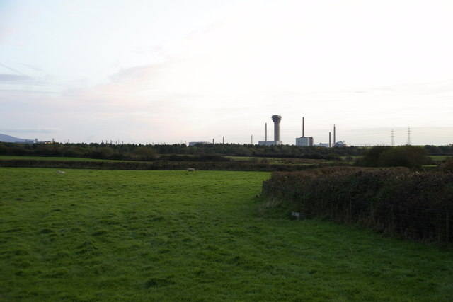 A view of Calder Hall (Sellafield)